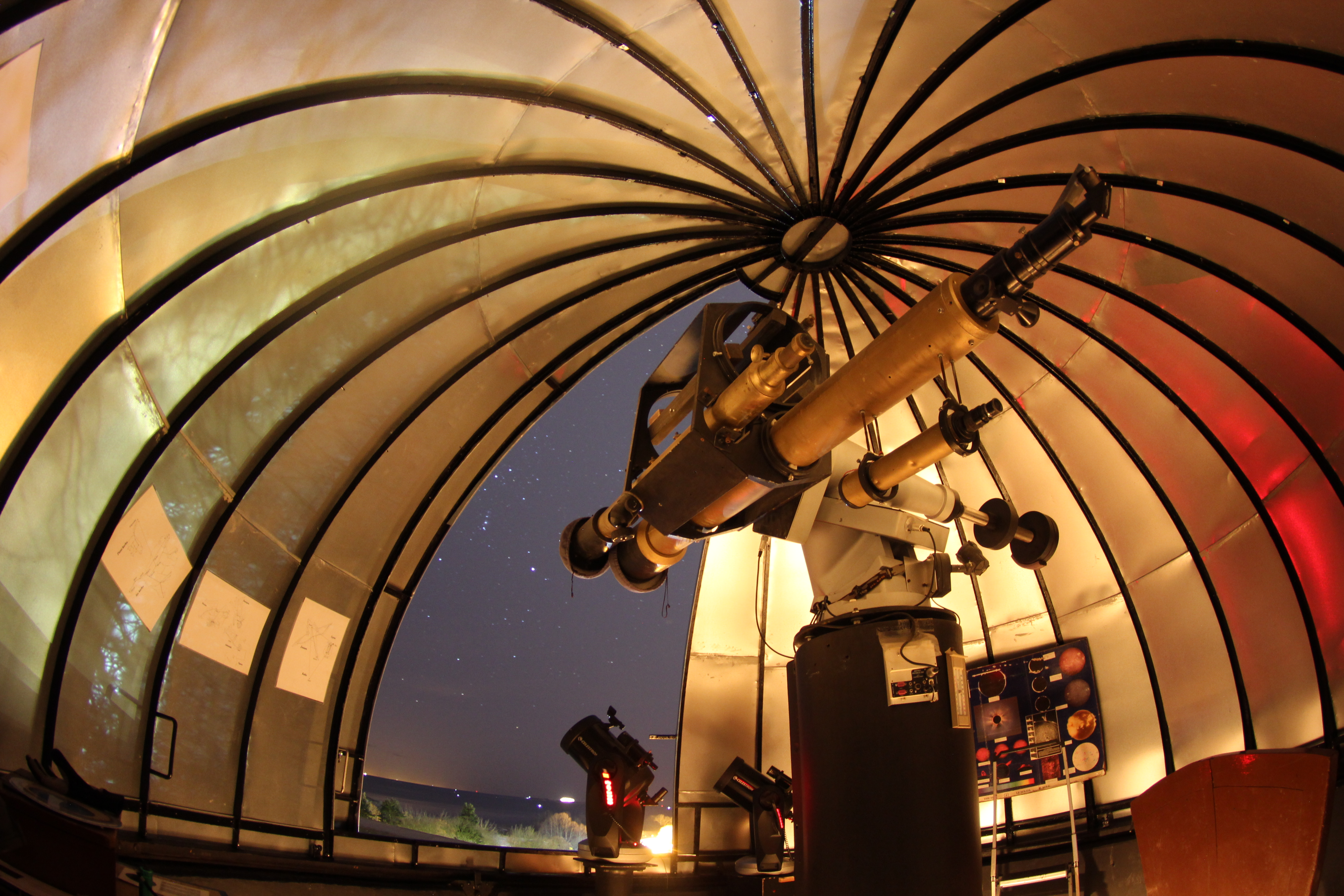 Interior of Ursa observatory. Two refracting telescopes (135 mm and 90 mm) along with more modern equipment. Photographed with fisheye lens.